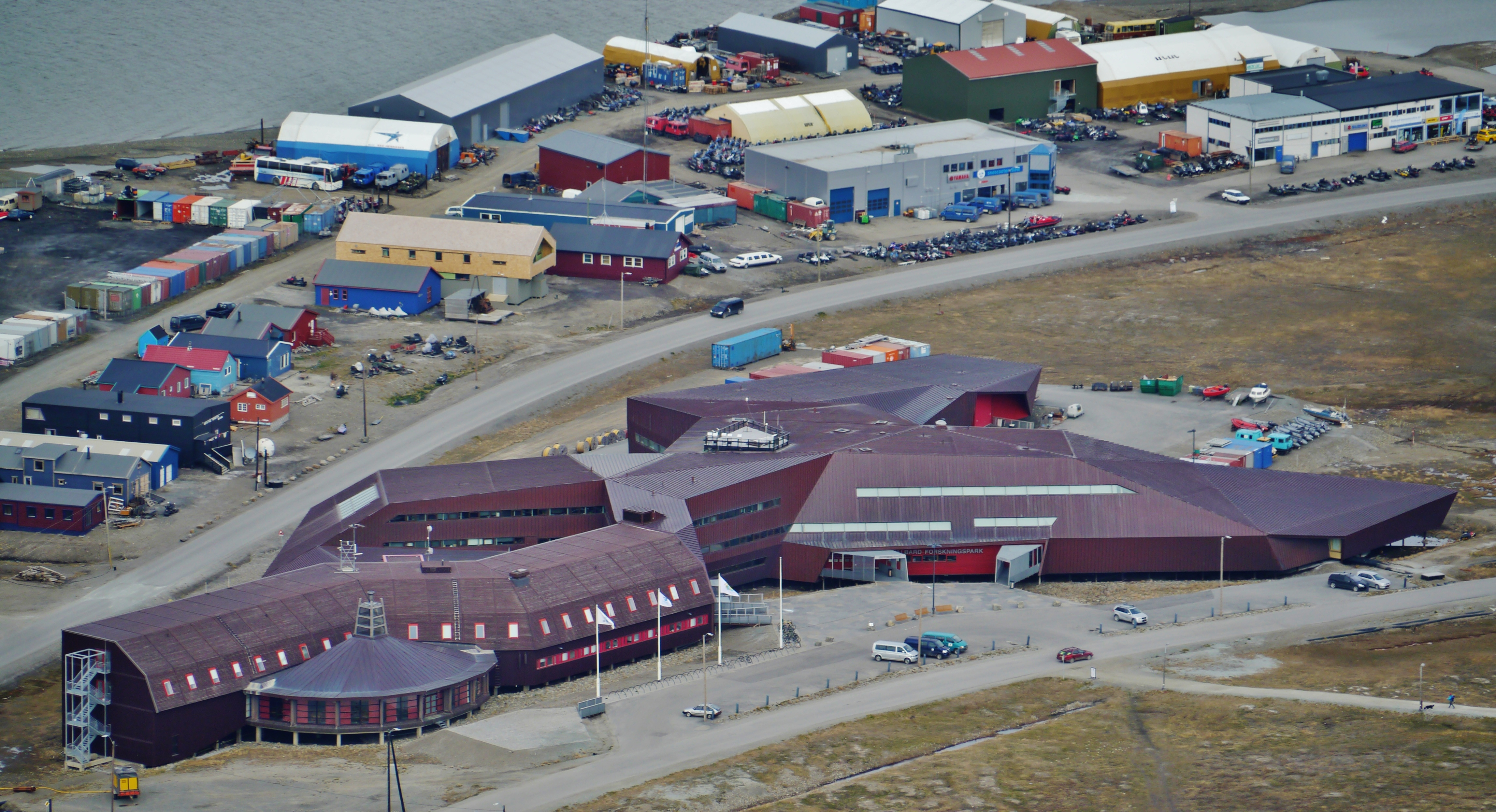 View from Plateau Mountain to to the University Centre, Longyearbyen, Spitsbergen, Norway